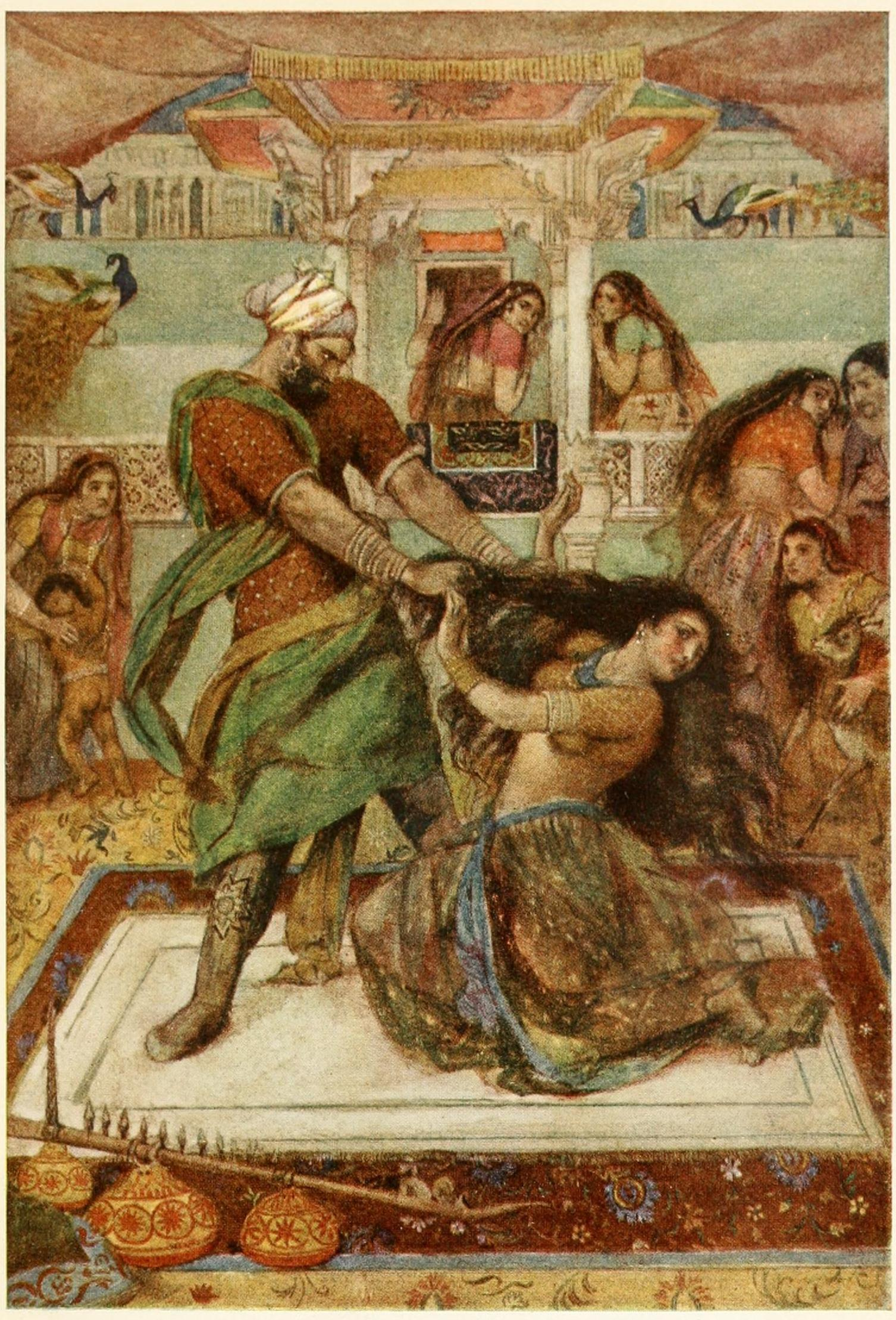 Author: Monro, W. D Publisher: New York : Thomas Y. Crowell Company Possible copyright status: NOT_IN_COPYRIGHT Language: English Call number: 600940 Digitizing sponsor: MSN Book contributor: New York Public Library Collection: newyorkpubliclibrary; iacl; americana Notes: orange pages from unnumbered illustrations.